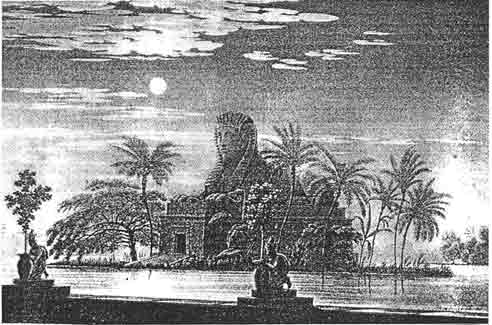 Sketch of stage design for Mozart's opera Die Zauberflote, by German architect Karl Schinkel